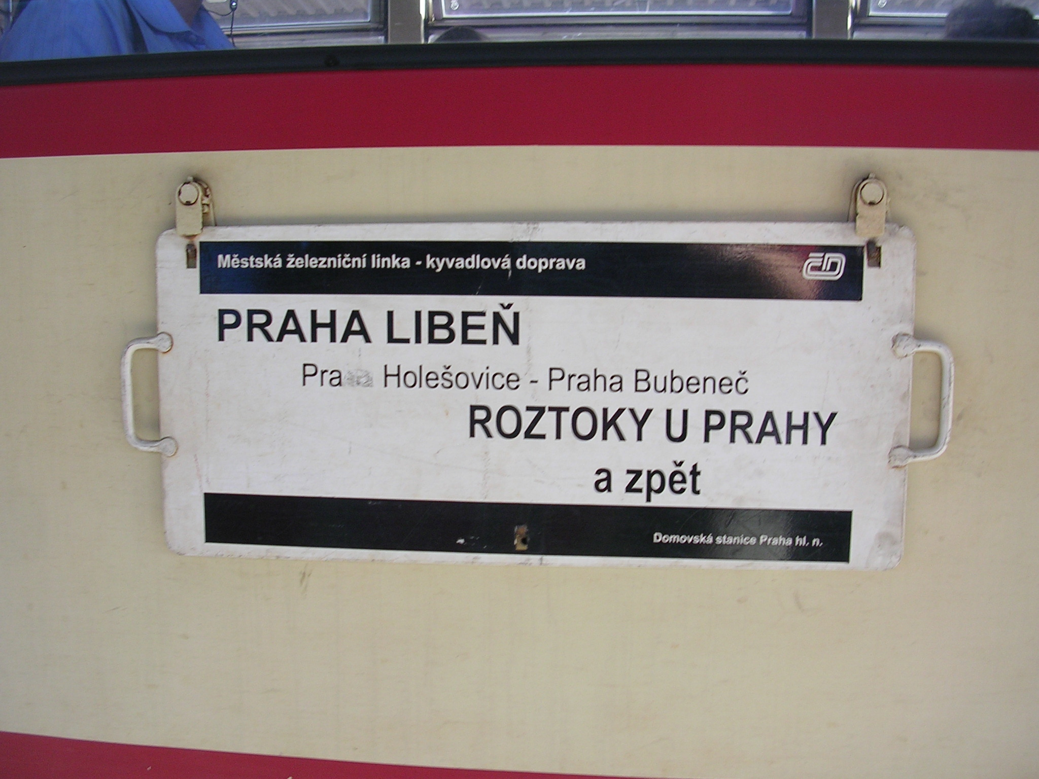 Sheet with station names of ML railway line (Praha-Libeň - Roztoky u Prahy) in Prague, Czech Republic.